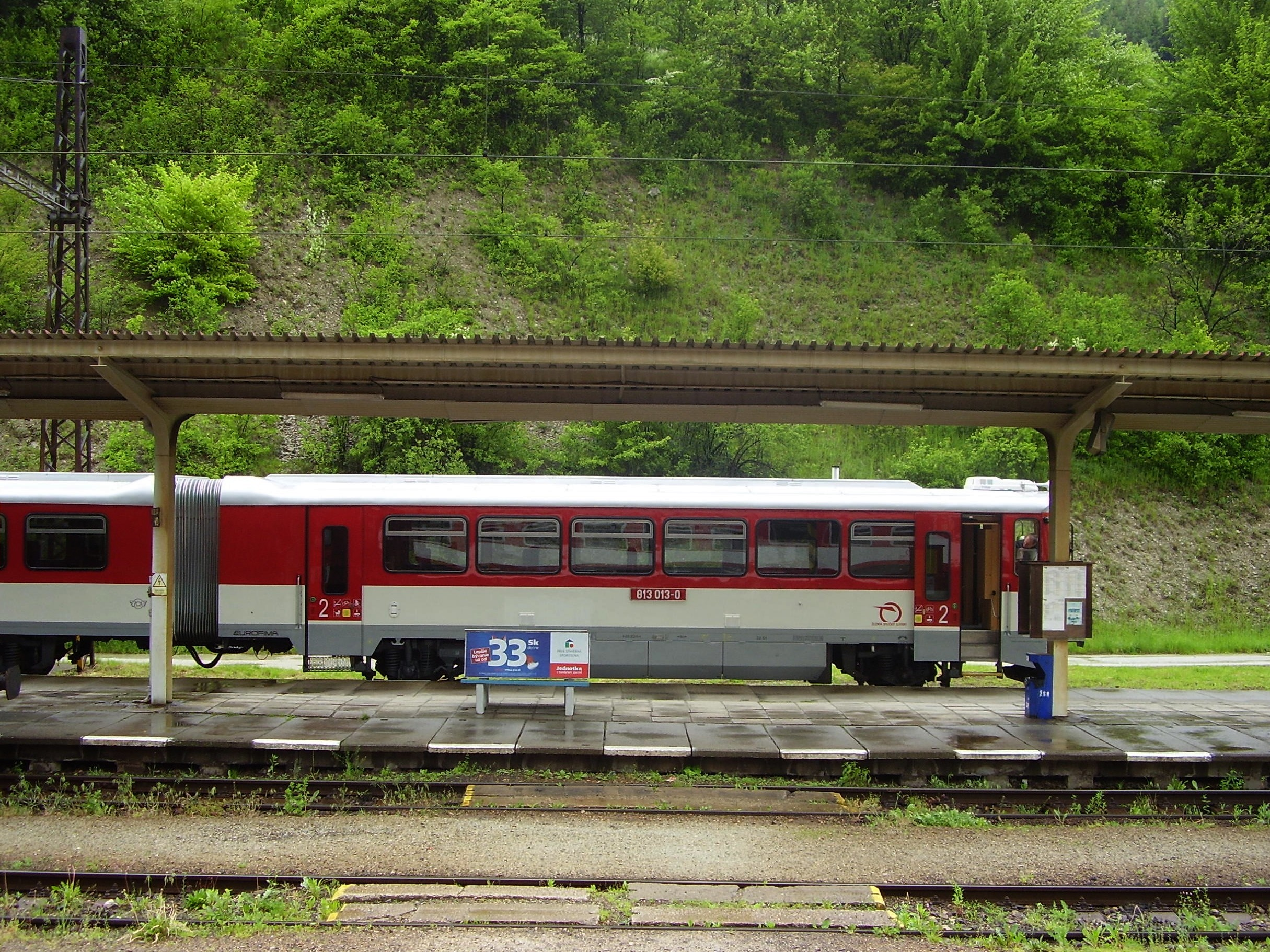 Diesel multiple unit 813 in train station Kraľovany, Slovakia